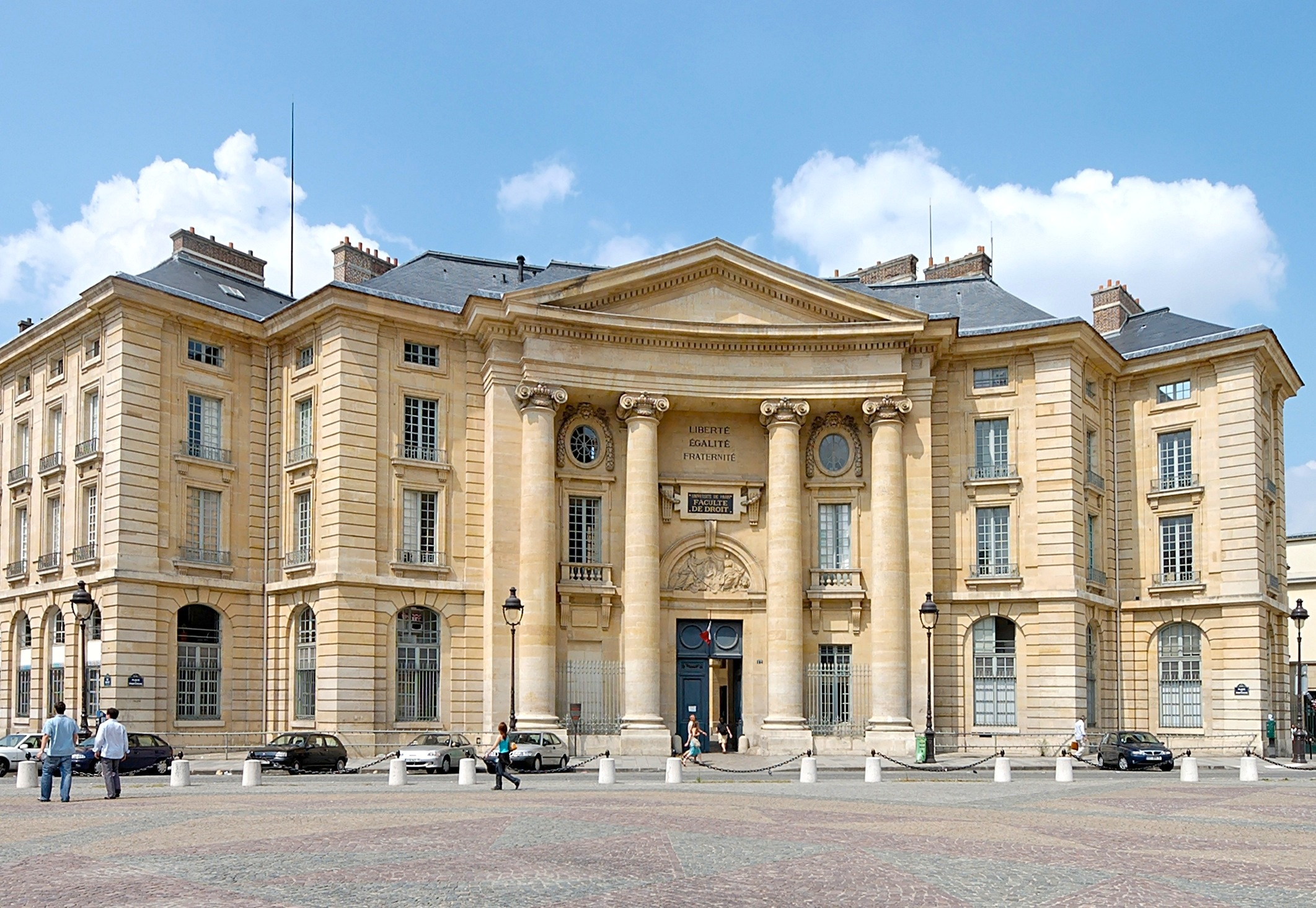 Main buildings of the universities Panthéon-Sorbonne and Panthéon-Assas, former Faculty of Law and Economics of the University of Paris (Sorbonne). Place du Panthéon, Paris.